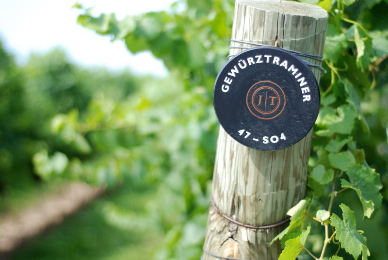 Front yard at Jackson-Triggs